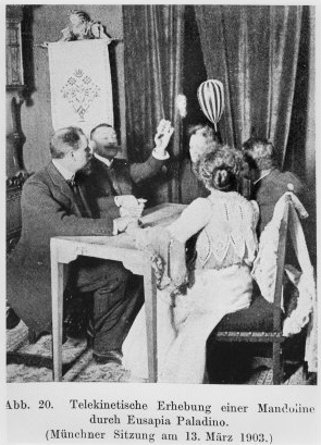 A mandolin (striped musical instrument on right) levitates during a séance with medium Eusapia Palladino on March 13, 1903 at a home in Munich, Germany.